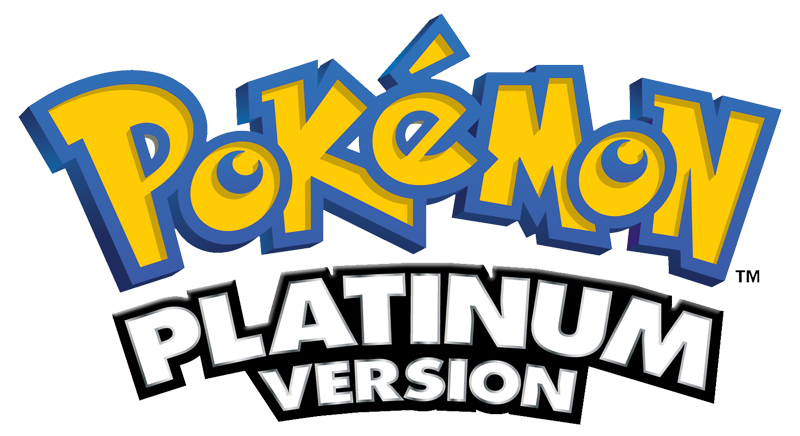 Pokemon Platinum Version logo